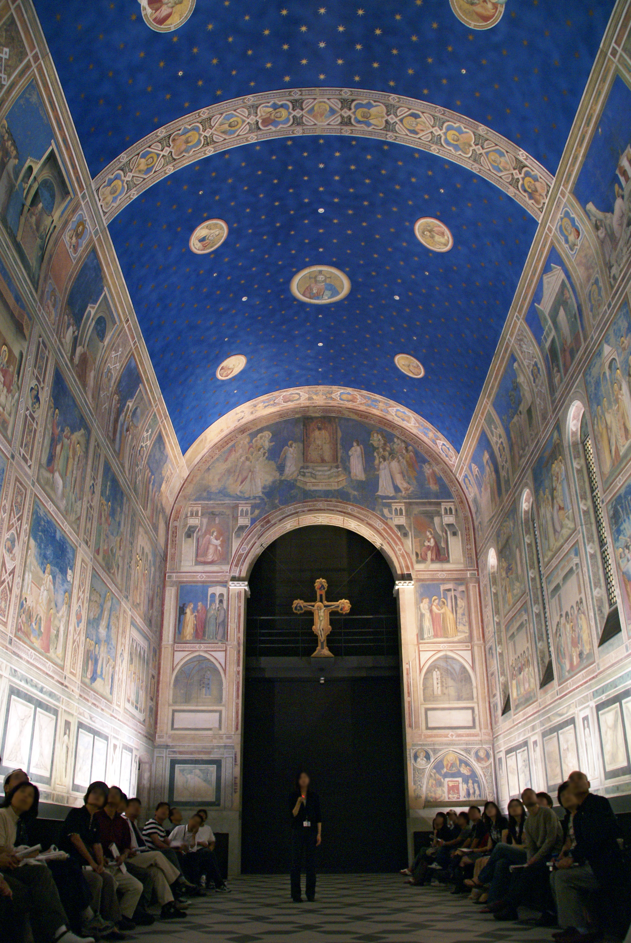 The Otsuka Museum of Art in Naruto, Tokushima prefecture, Japan